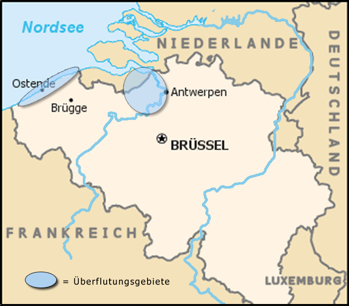 Map illustrating the extent of the Great Flood of 1953 in Belgium